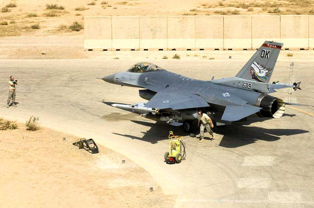 125th Expeditionary Fighter Squadron - General Dynamics F-16C Block 32C Fighting Falcon 86-1589 prepares to take off from Balad AB on September 30th, 2008. F-16s from the Minnesota, Ohio and Oklahoma ANG are assigned to the 332d EFS during deployment in Iraq. [USAF photo by TSgt. Erik Gudmundson]